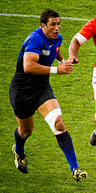 Match between France and Tonga during 2011 Rugby World Cup in New Zealand.